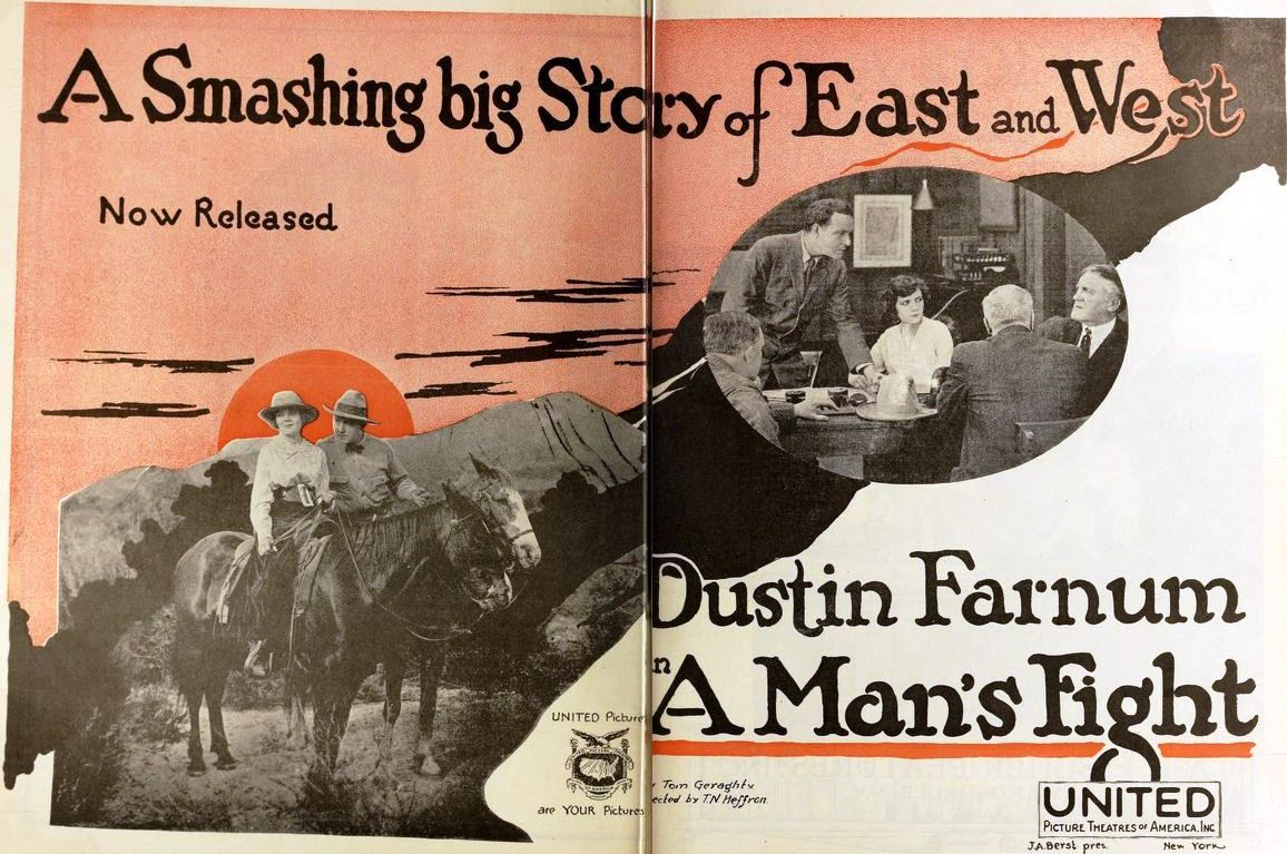 Ad for the American film A Man's Fight (1919) with Dustin Farnum, pages 1560 and 1561 of the August 23, 1919 Motion Picture News.